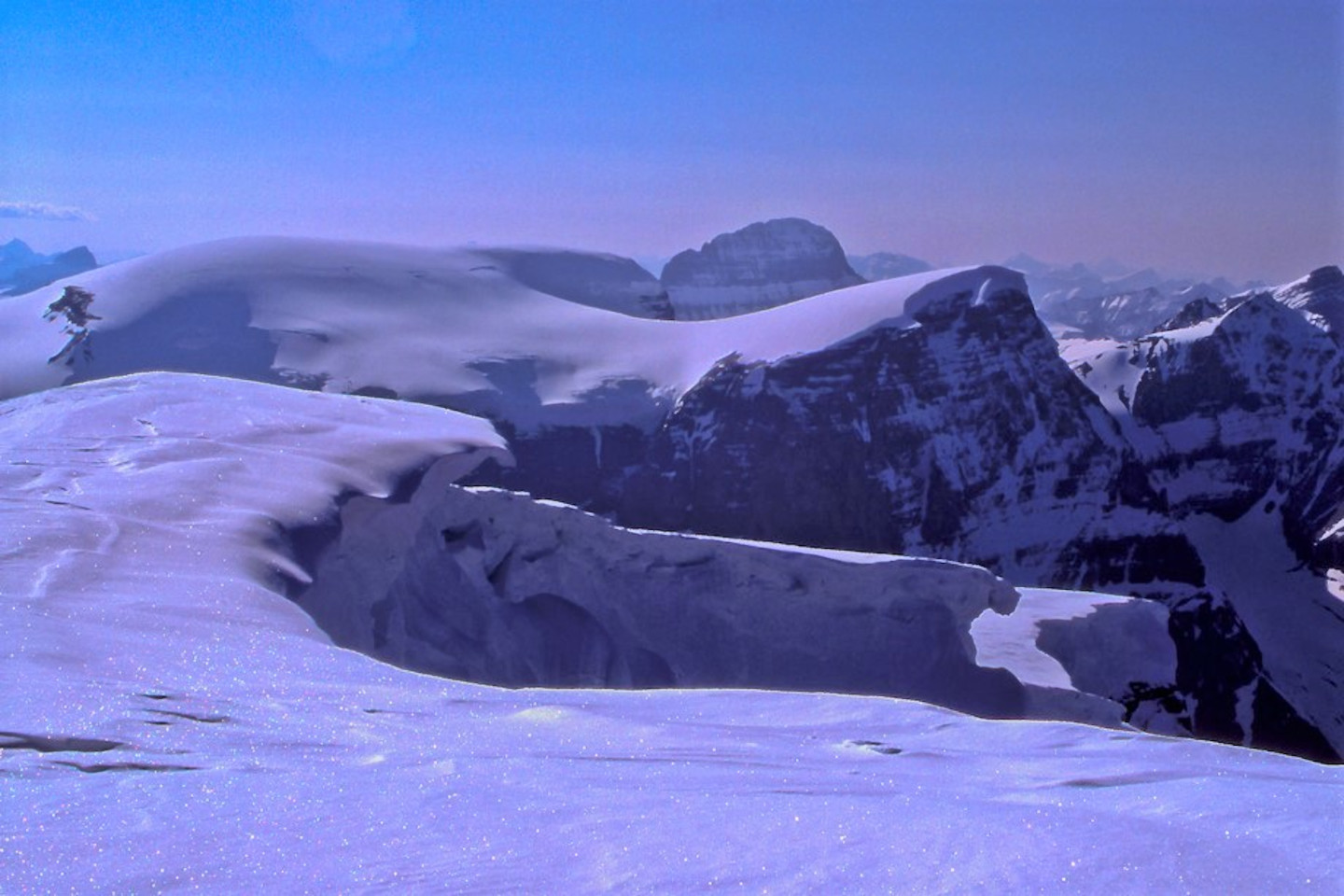 The Stutfields (West & East) from Mt. Kitchener; Mt. Alberta at back in the 'saddle'.